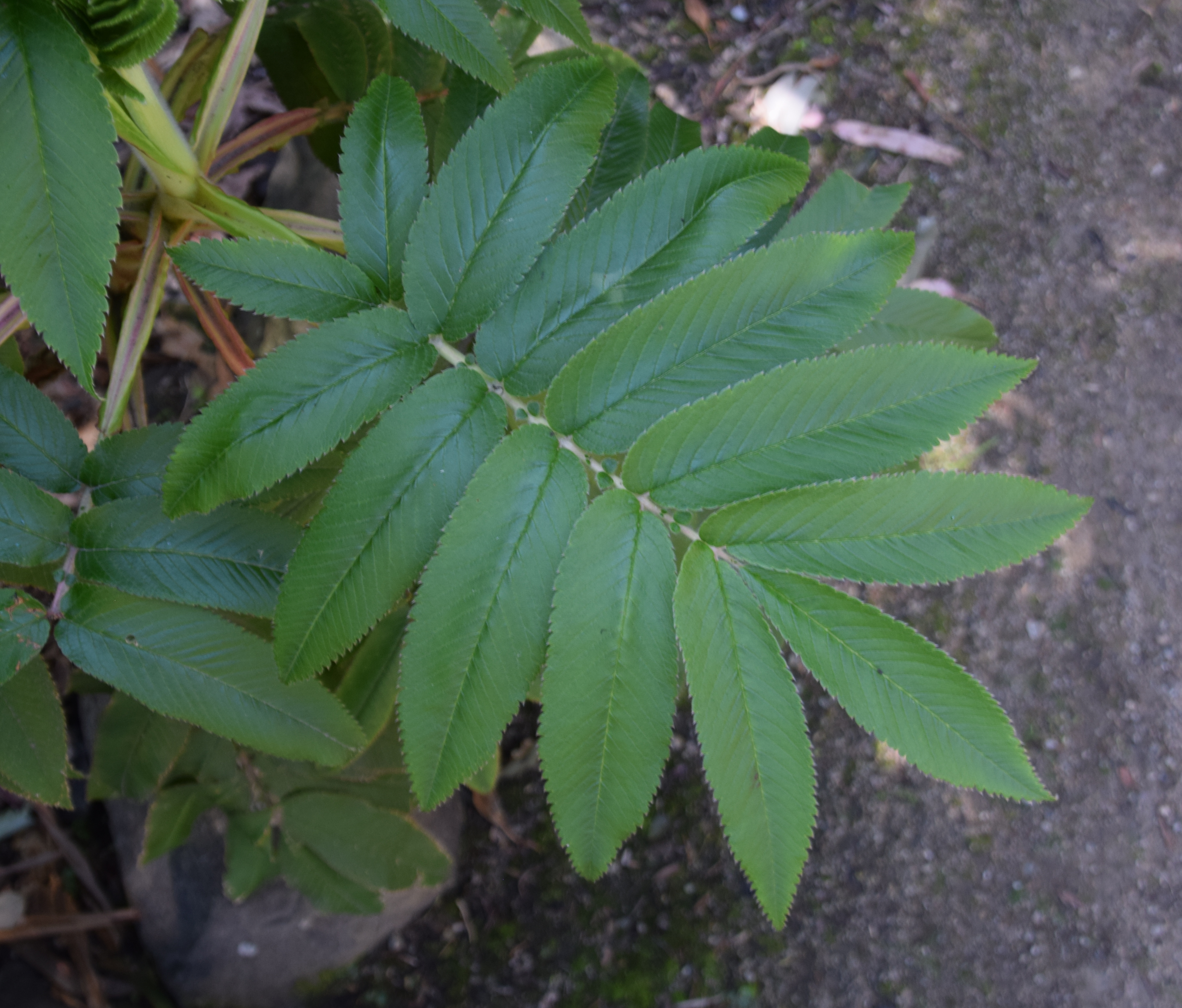 Hagenia abyssinica in Dunedin Botanic Garden, Dunedin, New Zealand